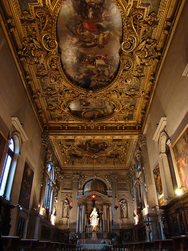 Basilica of Santi Giovanni e Paolo, Venice, Veneto, Italy. Chapel of the Rosary.